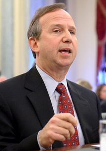 The Honorable Jack Markell, Governor of the State of Delaware testifies on behalf of the National Governors Association.